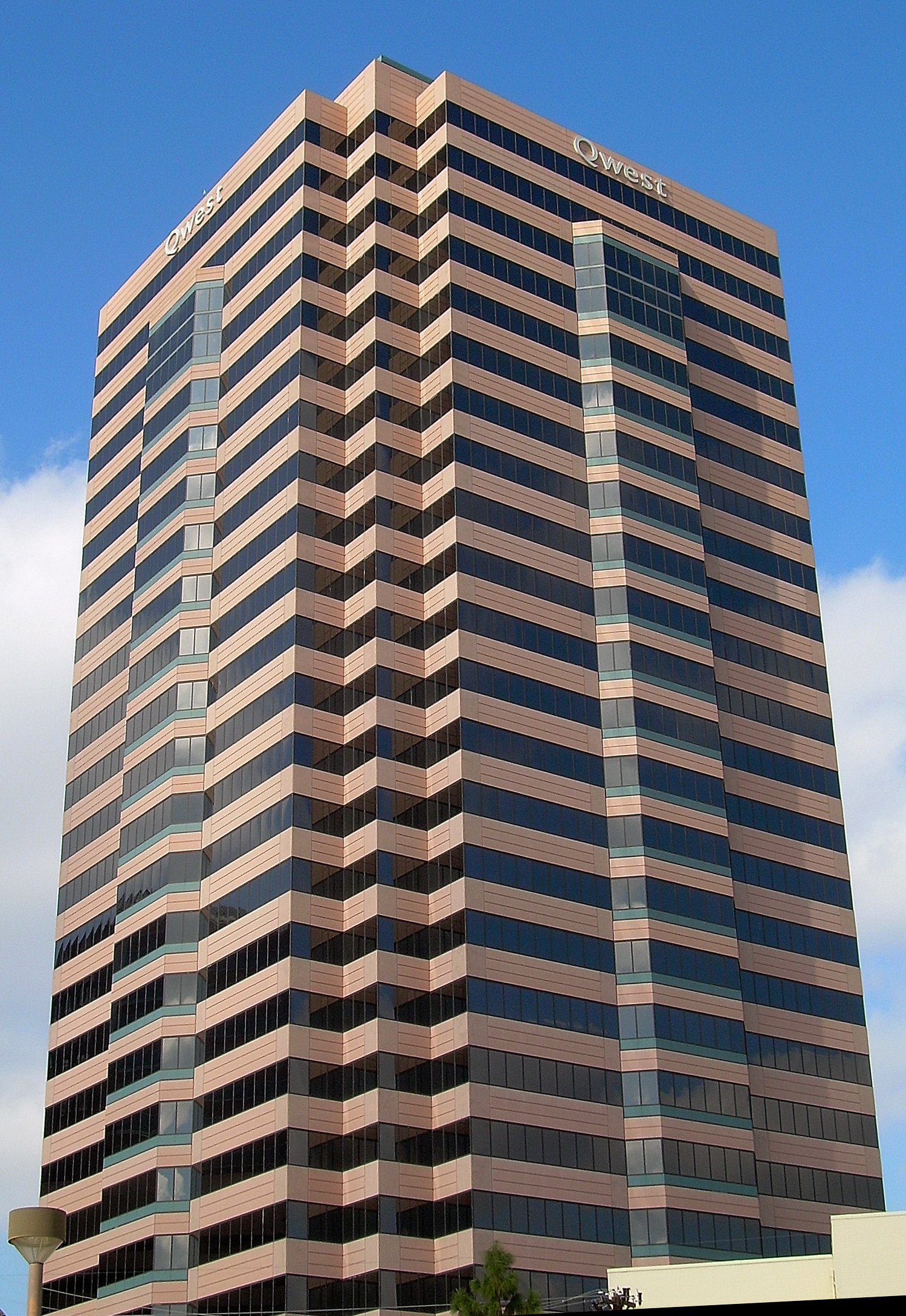 JCordova, self